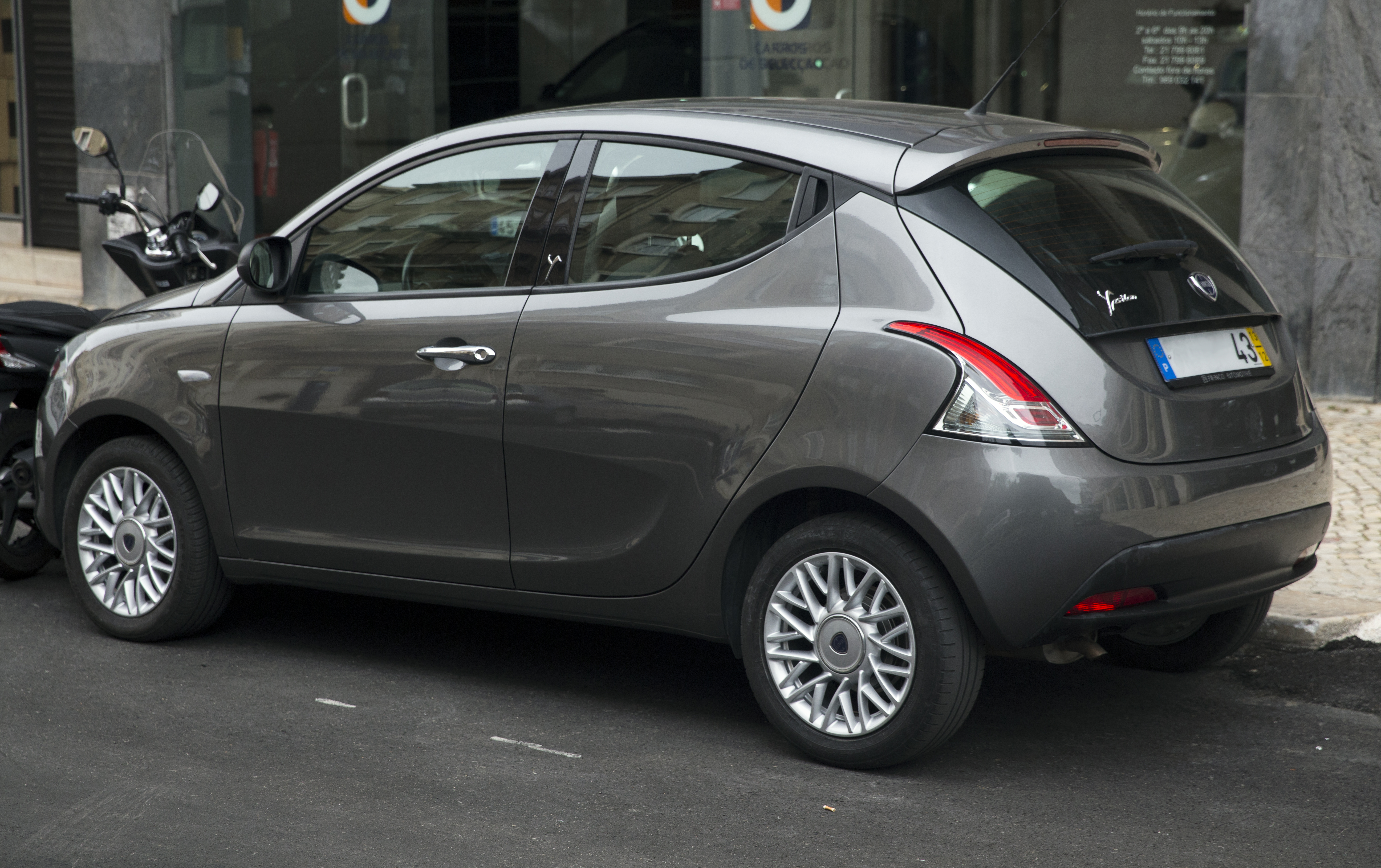 A 2013 Lancia Ypsilon (312, 1242cc) in Lisbon, Portugal. Love this, although it's probably another swansong car from Lancia.